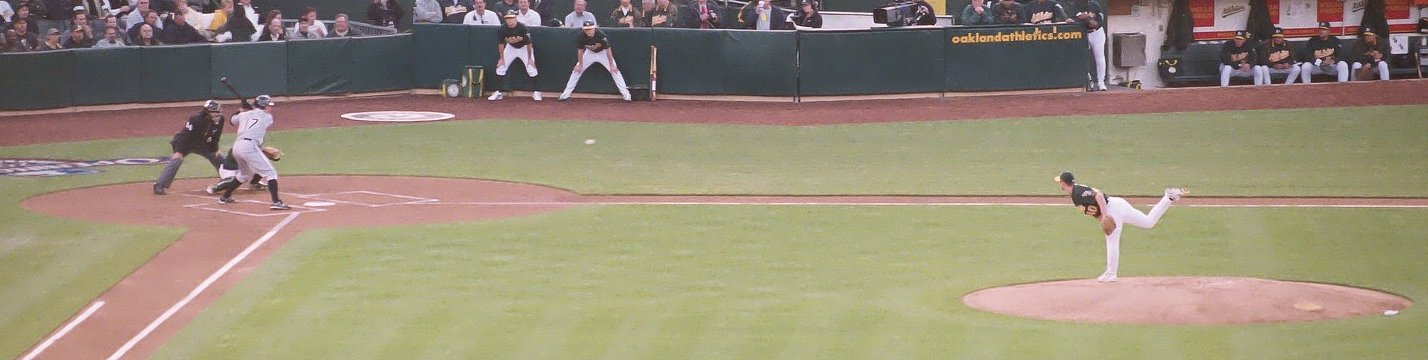 I took this. (GWO). GFDL Rich Harden pitching to Darin Erstad, Oakland A's home opener, April 9 2007.